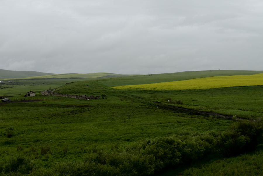 View from the S203 near Gejige Tewula, New Barag Left Banner